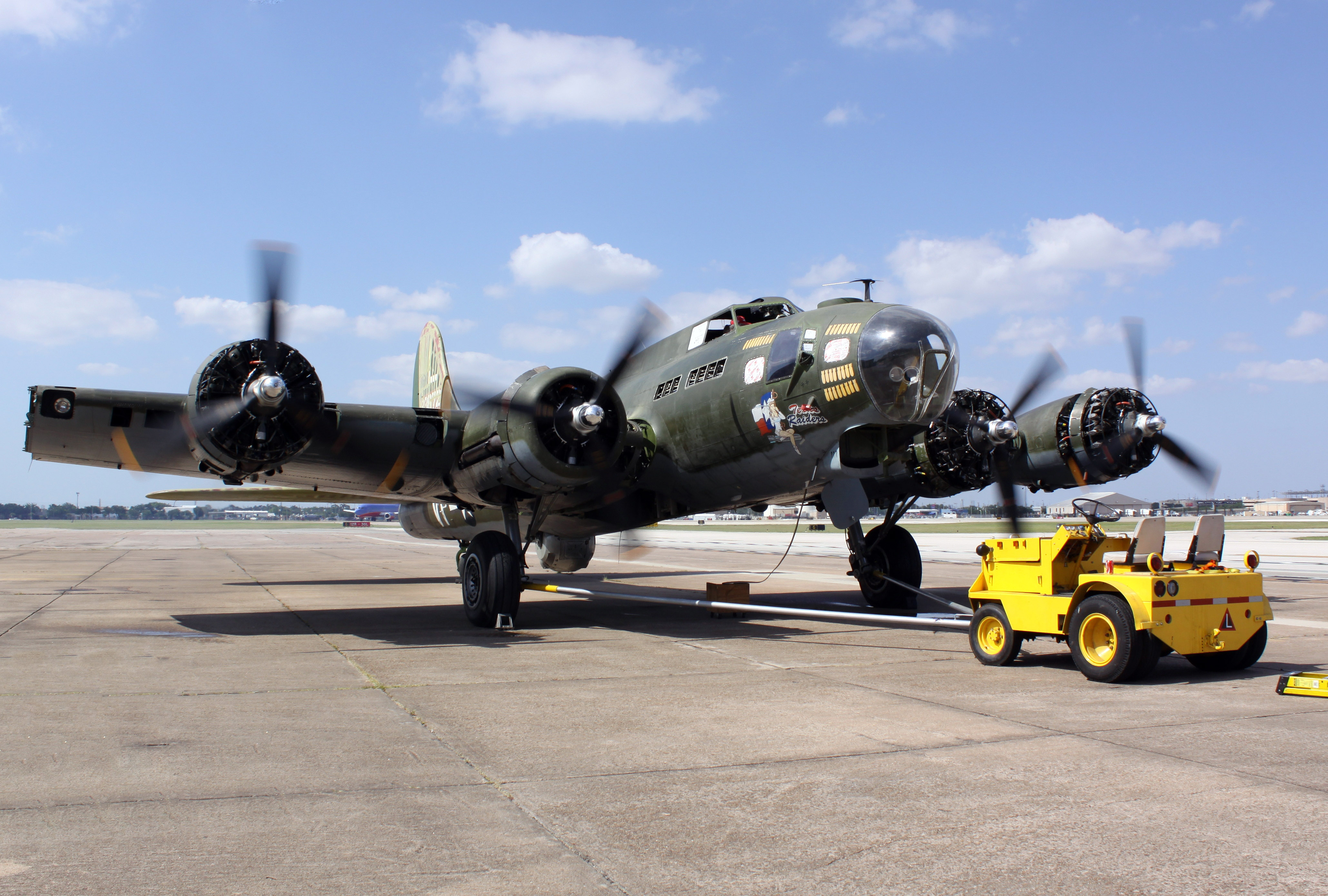 Texas Raiders is currently undergoing a lengthy and costly refurb and main spar replacement project, started in 2001 due to the FAA’s Airworthiness Directive # 2001-22-06, citing corrosion in the wings. This project will cost about 500,000 dollars. Texas Raiders should be able to fly again in 2009 or 2010